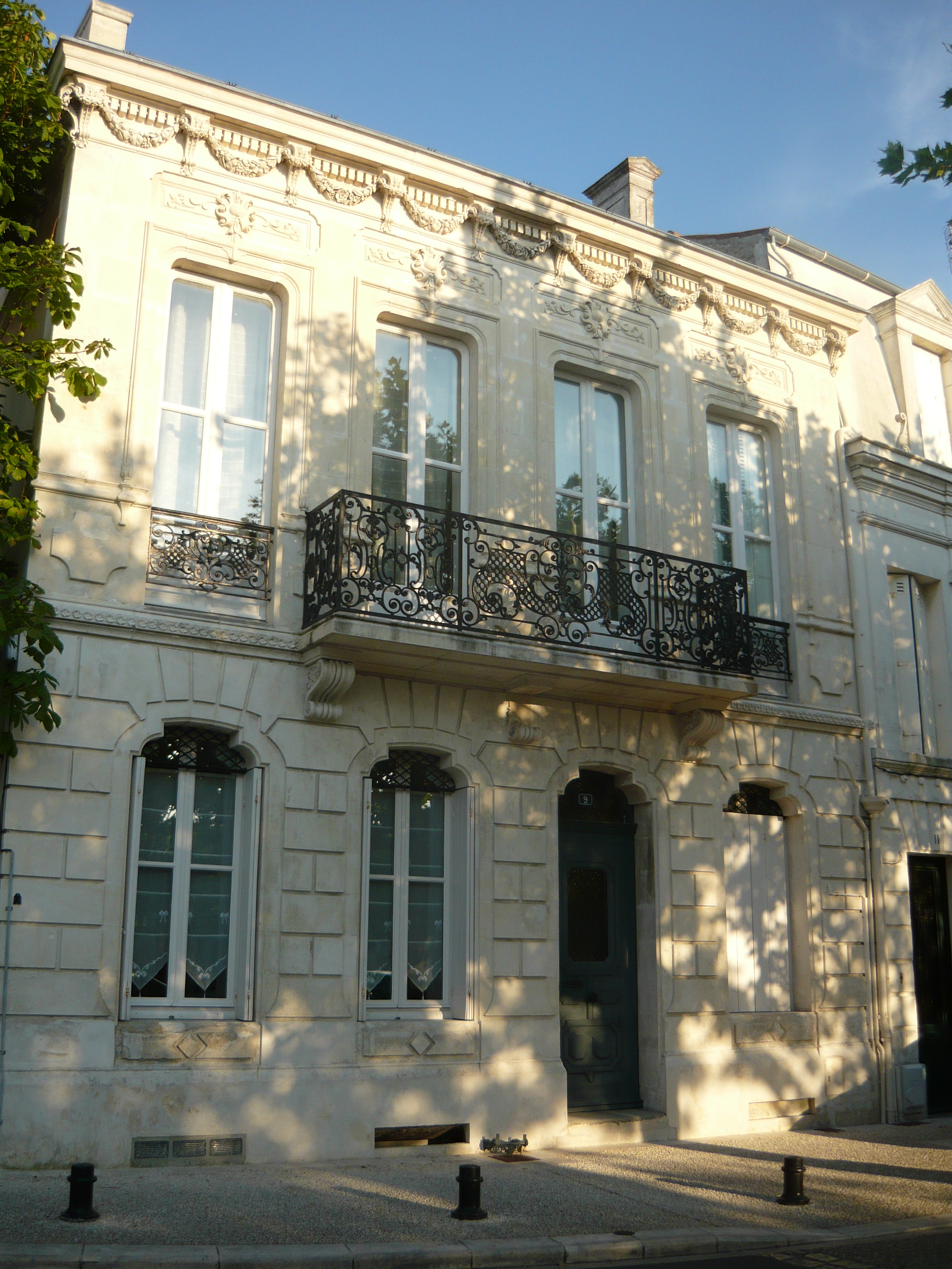 immeuble place Chasseloup-Laubat à Marennes (17)